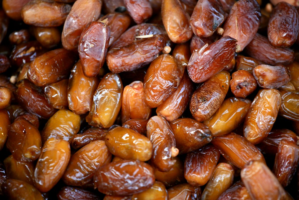 An Assortment of Dates